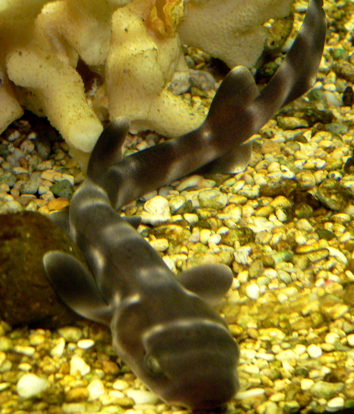 Photo of Atelomycterus marmoratus at Birch Aquarium